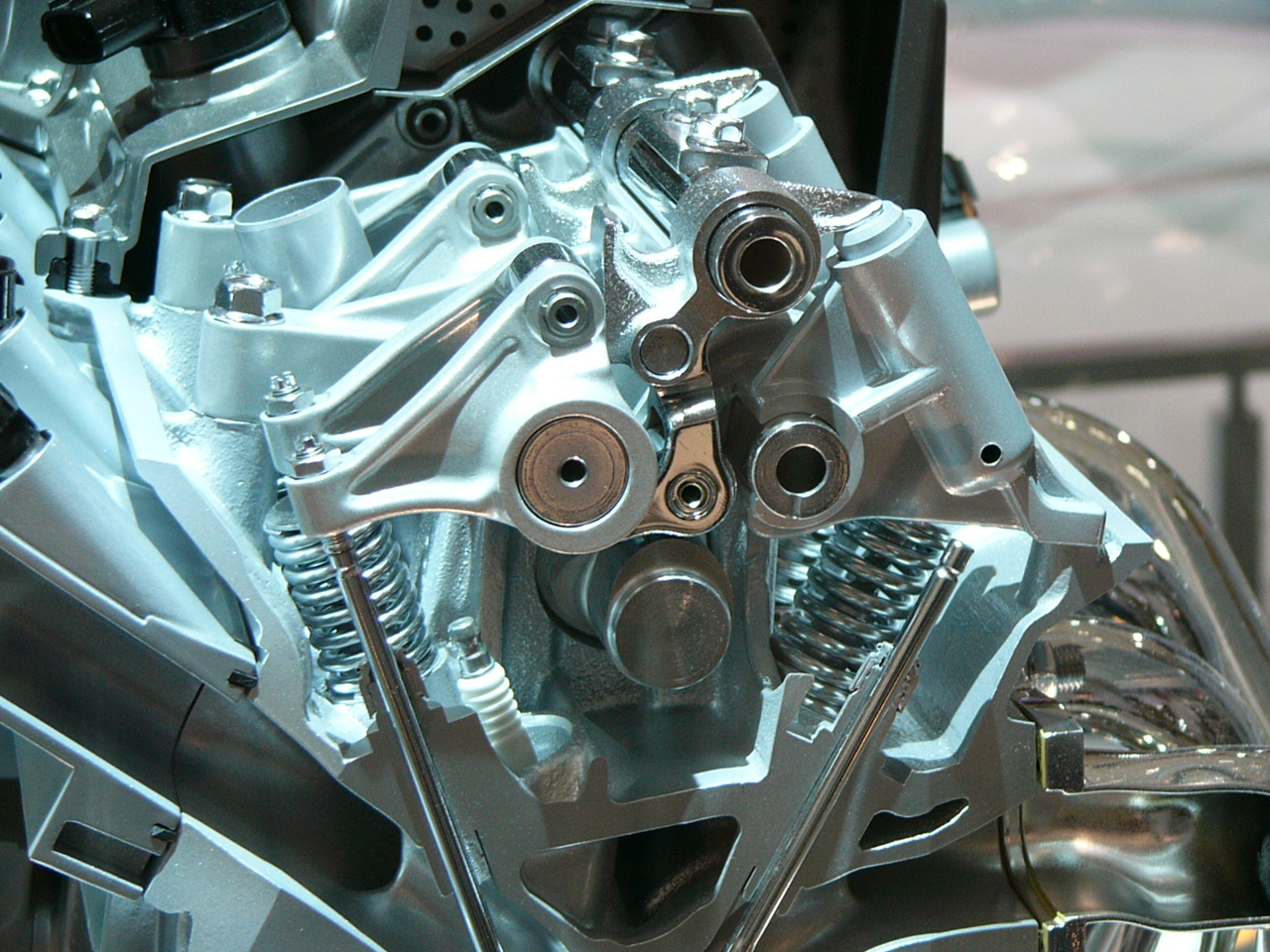 The next generation MIVEC (variable lift and timing type) (is not production model) displayed at Tokyo Motor Show 2005.